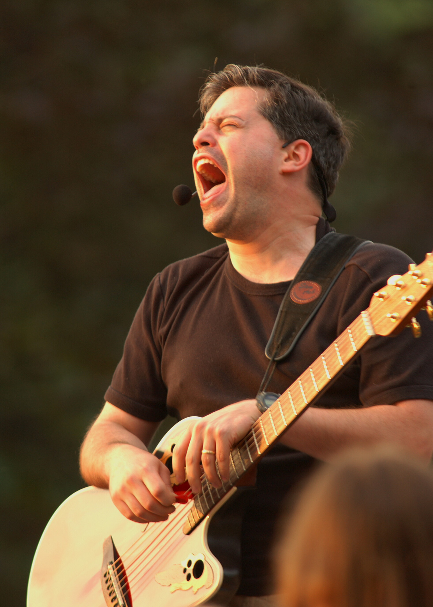 Graham Clarke performing in Bedford, NY, July 2003